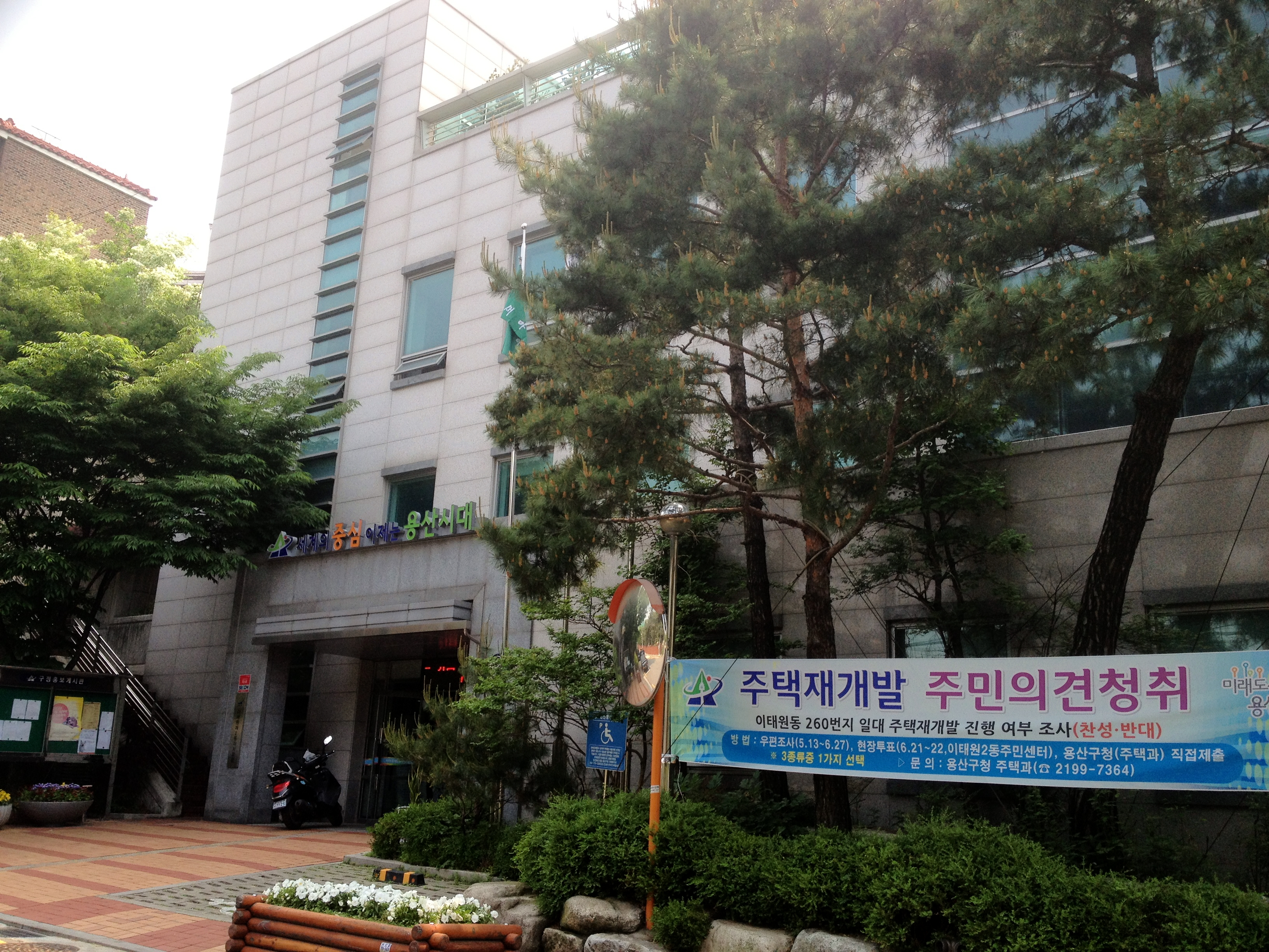 Itaewon 2-dong Comunity Service Center(Yongsan-gu)